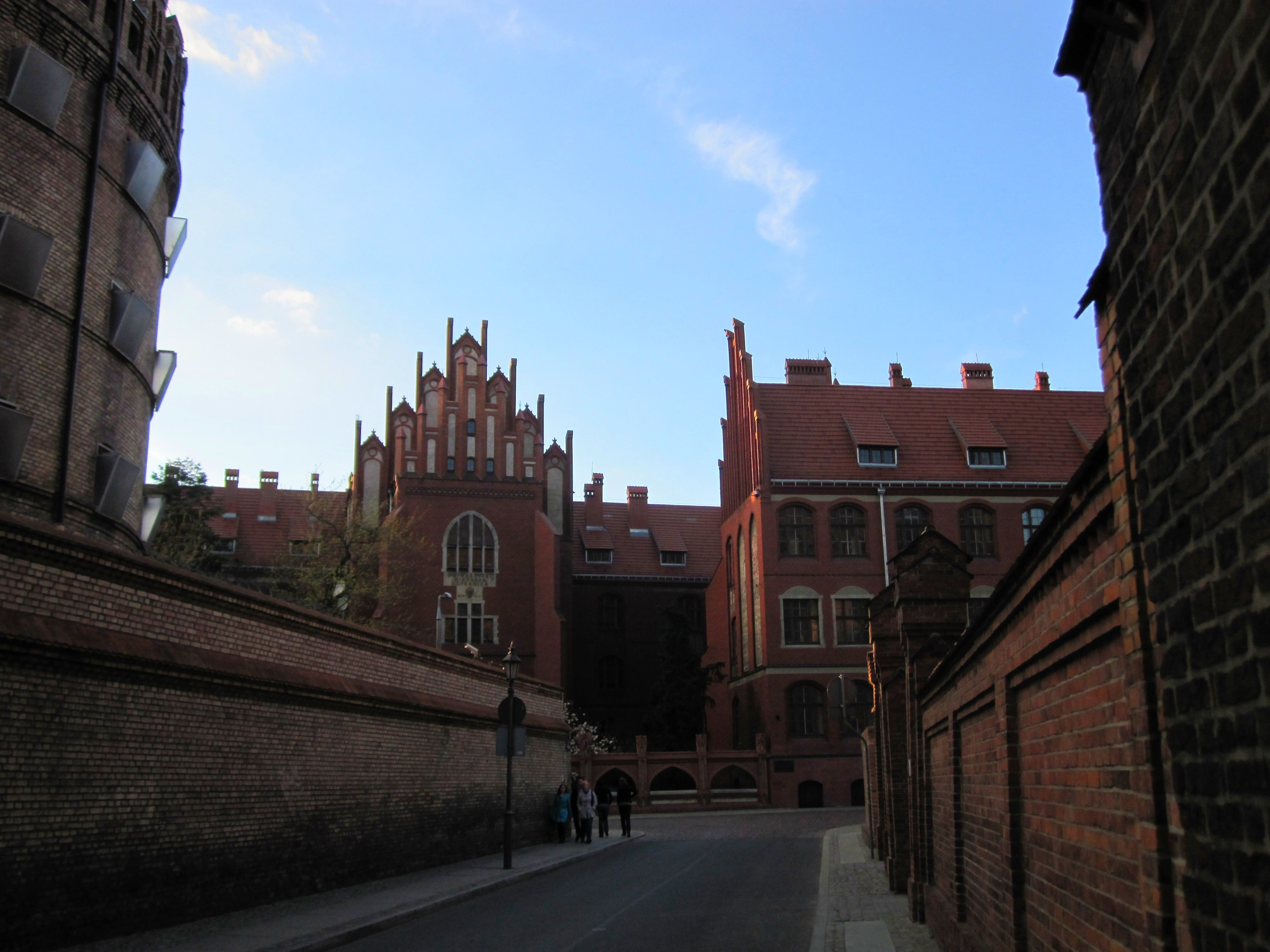 Collegium Maius UMK